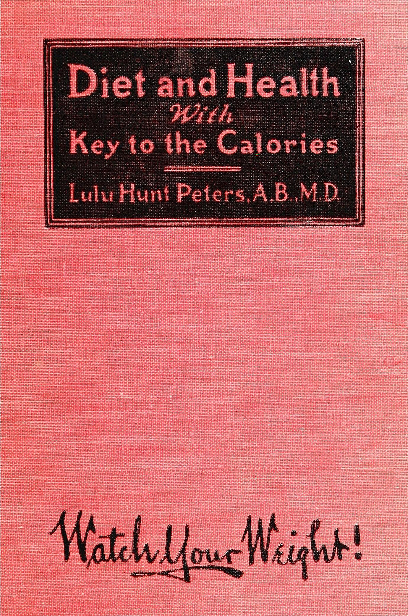 Cover, Diet and health, with key to the calories, by Lulu Hunt Peters, 1873-1930. Chicago, The Reilly and Britton co. [c1918]